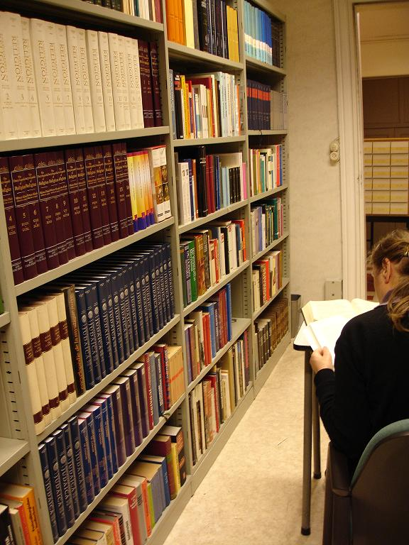 Seminary library ghent